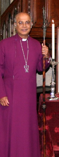 The Rt Rev Dr Michael Nazir-Ali, Bishop of Rochester at Rochester Cathedral.